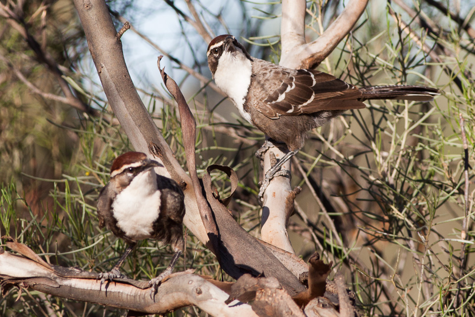 Chestnut-crowned Babbler (Pomatostomus ruficeps)